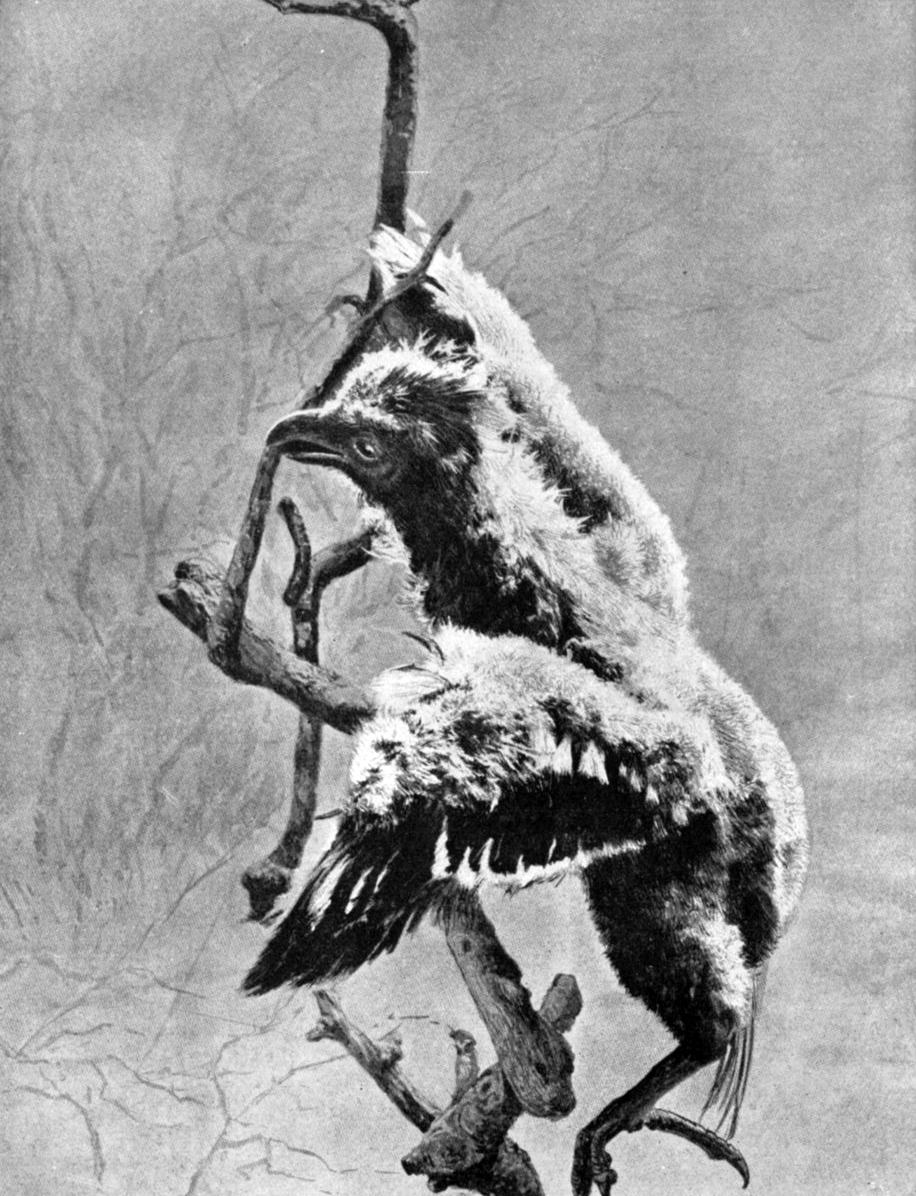 THE HOATZIN INHABITS BRITISH GUIANA The newly hatched bird has claws on its thumb and first finger and so is enabled to climb on the branches of trees with great dexterity until such time as the wings are strong enough to sustain it in flight.